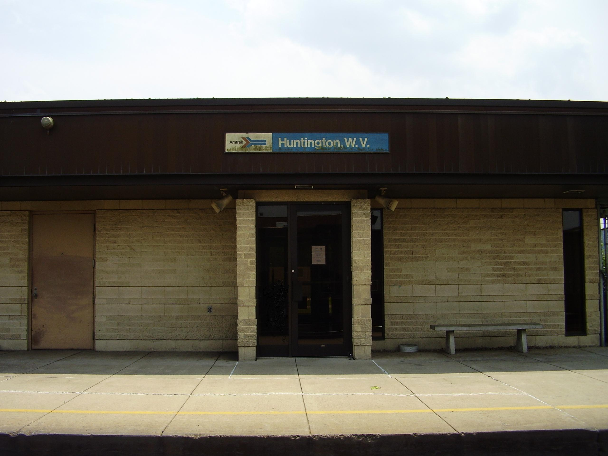 Self-made photo of the Amtrak station platform in Huntington, West Virginia. Taken from the tracks behind the station at 1:54 PM on 4 July 2006.